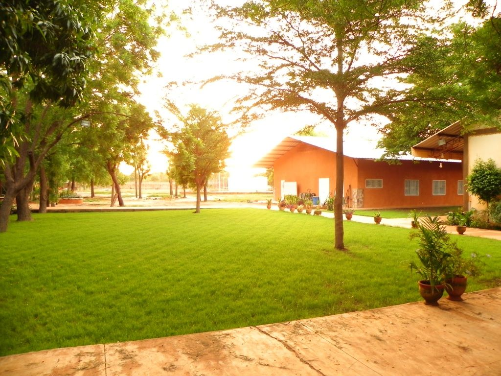 Sahel Academy Quad, School in Niamey Niger.